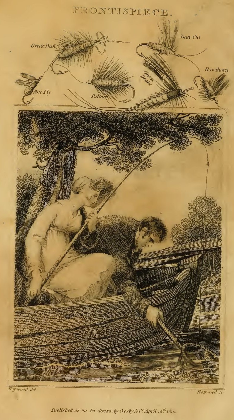 Frontpiece of 9th Edition of A Concise Treatise on the Art of Angling, Thomas Best, 1810